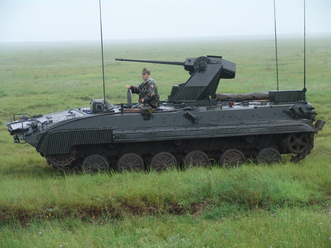 MLI-84M in Mălina firing range for a military demonstration.